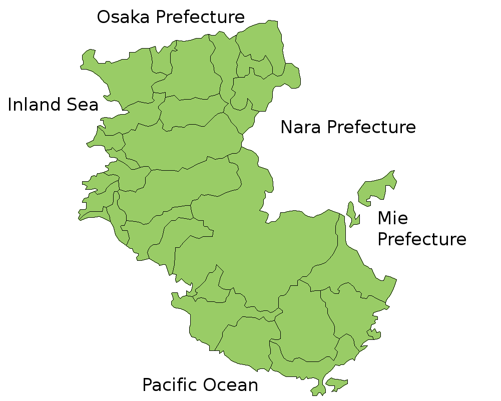 Map of Wakayama Prefecture, Japan. Thanks to Aoki Shigenobu and [1]. Colors from Image:TokyoMapCurrent.png by User:Fg2.